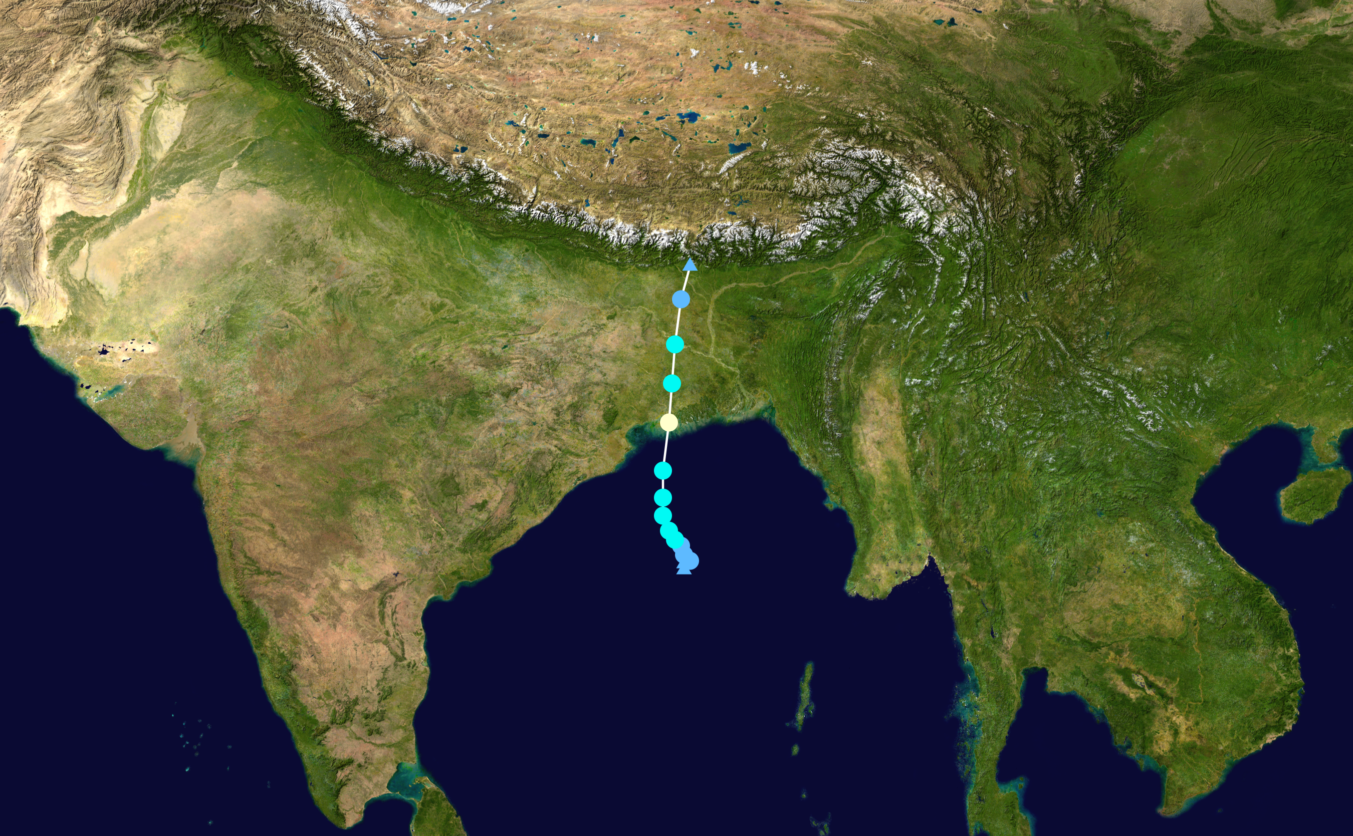 Track map of Severe Cyclonic Storm Aila of the 2009 North Indian Ocean cyclone season. The points show the location of the storm at 6-hour intervals. The colour represents the storm's maximum sustained wind speeds as classified in the Saffir–Simpson scale (see below), and the shape of the data points represent the nature of the storm, according to the legend below. Saffir–Simpson scale Tropical depression≤38 mph≤62 km/h Category 3111–129 mph178–208 km/h Tropical storm39–73 mph63–118 km/h Category 4130–156 mph209–251 km/h Category 174–95 mph119–153 km/h Category 5≥157 mph≥252 km/h Category 296–110 mph154–177 km/h Unknown Storm type Tropical cyclone Subtropical cyclone Extratropical cyclone / Remnant low / Tropical disturbance / Monsoon depression